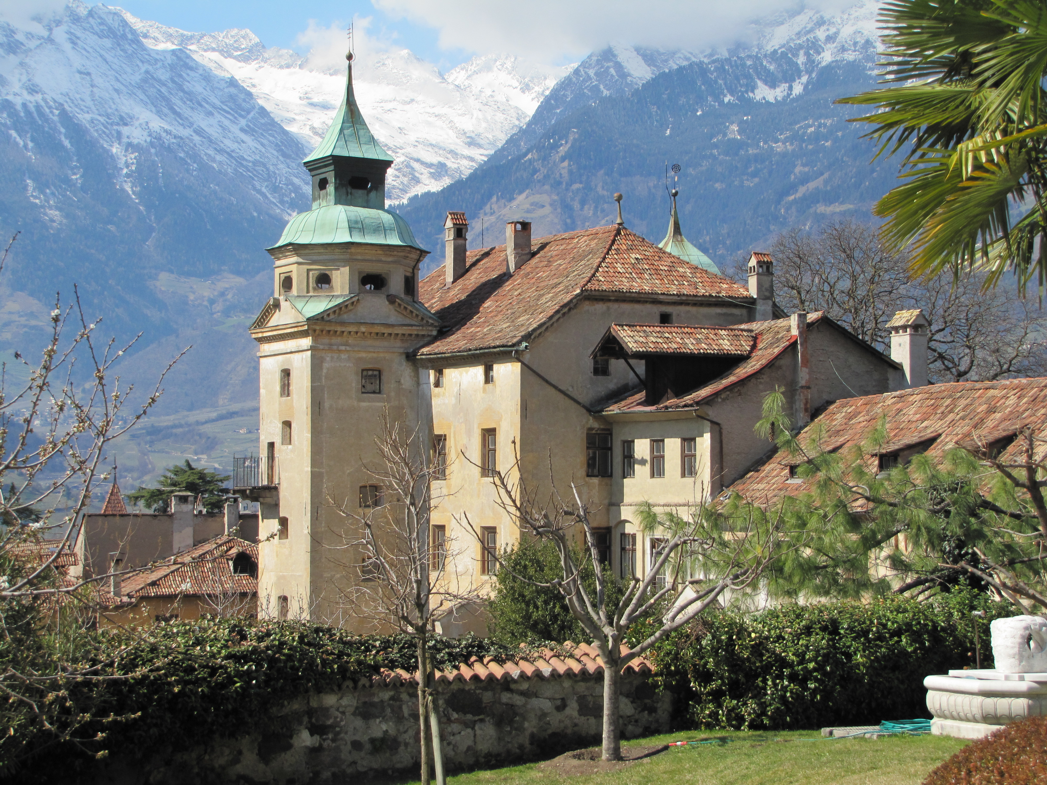 Castel Winkel in Meran, South Tyrol